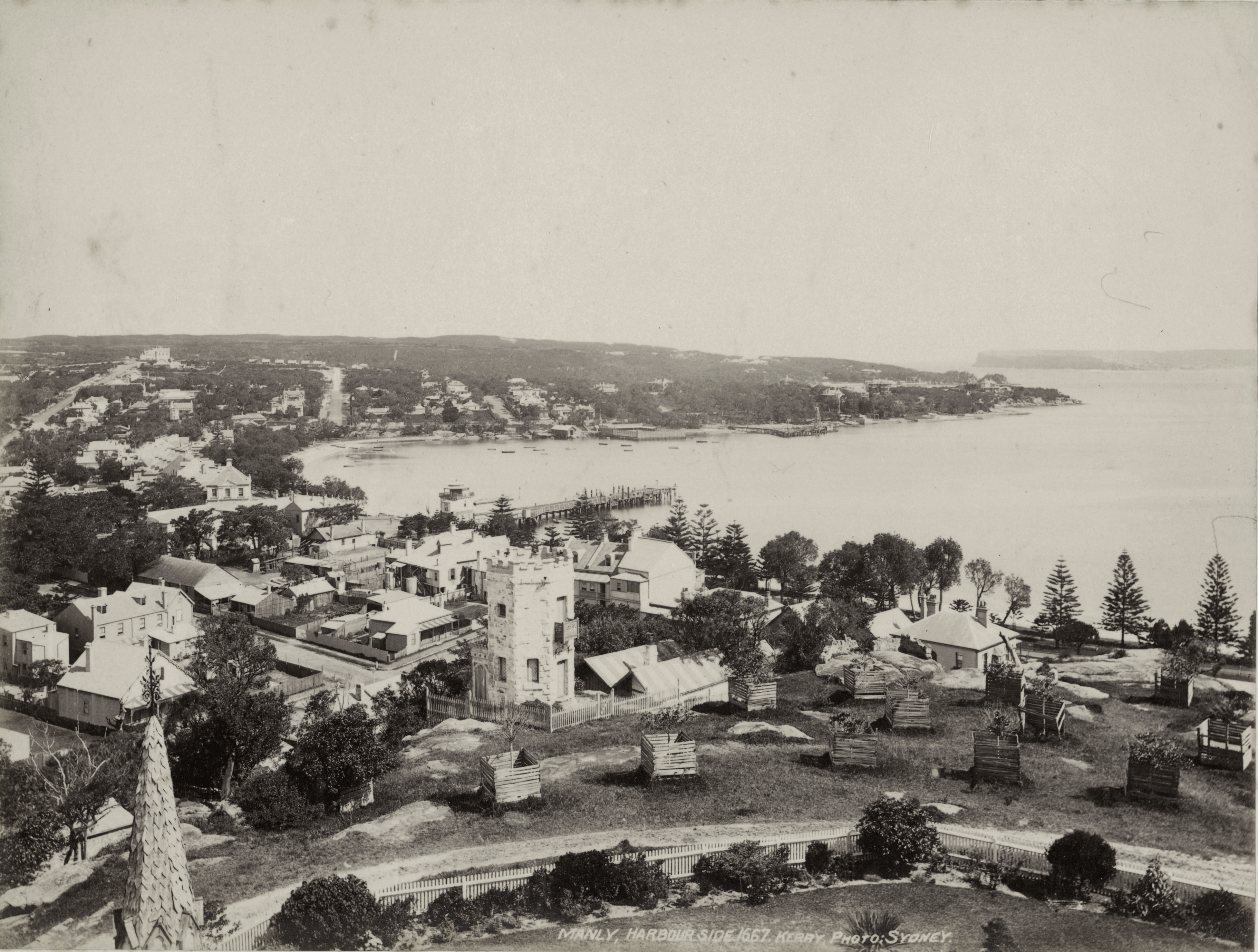 The harbour side of Manly, New South Wales in the late 1880s.